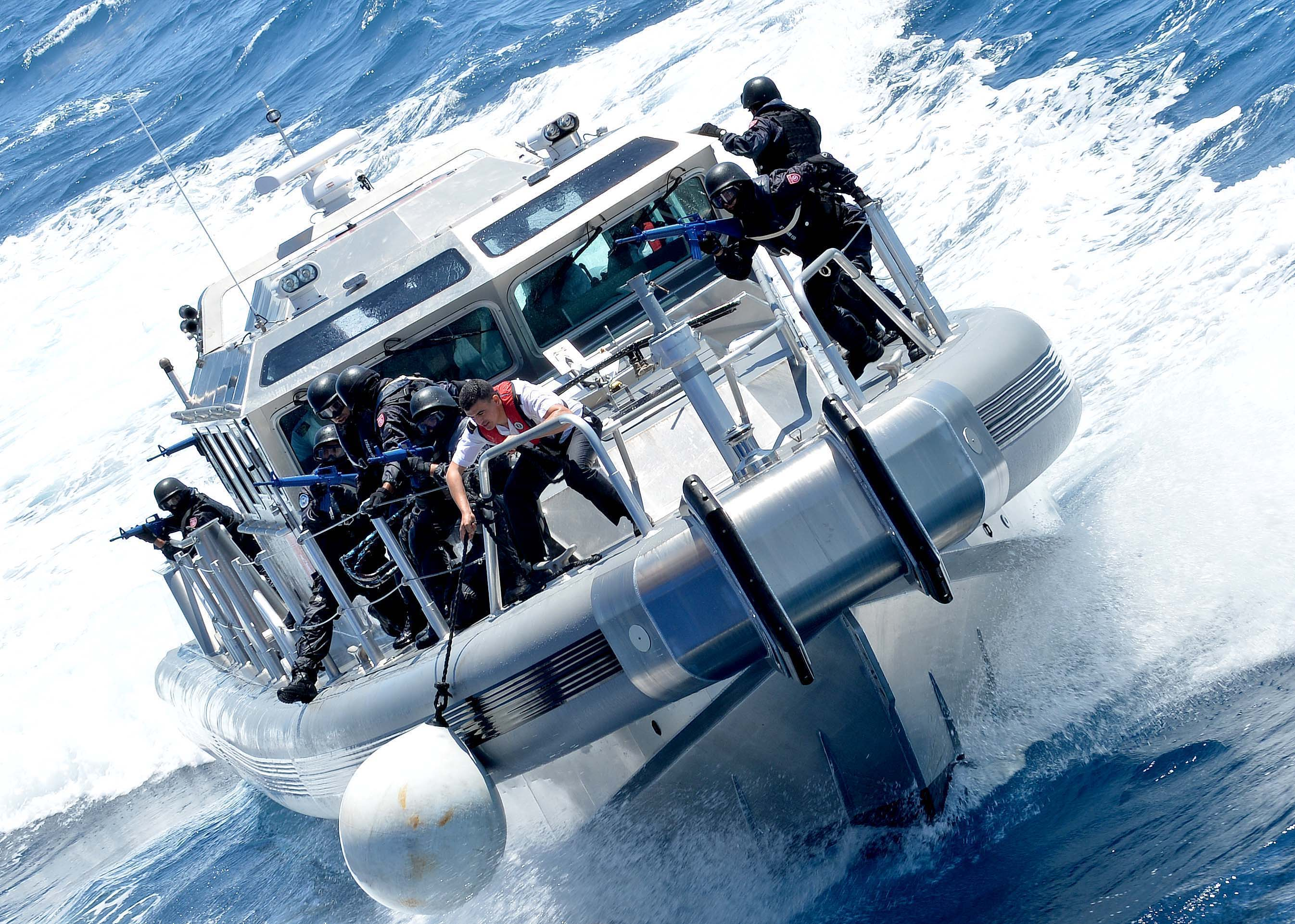 160521-N-EF272-011 BIZERTE, Tunisia (May 21, 2016) A Tunisian naval vessel completes final approach of a target vessel before a boarding attempt during the at-sea portion of Exercise Phoenix Express 2016. Phoenix Express, sponsored by U.S. Africa Command (AFRICOM) and facilitated by U.S. Naval Forces Europe-Africa/U.S. 6th Fleet, is designed to improve regional cooperation, increase maritime domain awareness information-sharing practices, and operational capabilities to enhance efforts to achieve safety and security in the Mediterranean Sea. (U.S. Navy photo by Mass Communication Specialist 2nd Class Margie Rodriguez/Released)